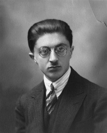 Sadeq Hedayat (1903-1951), Iranian writer. This picture is taken in Paris in 1307 Hijri Shamsi equivalent to 1929 or 1928